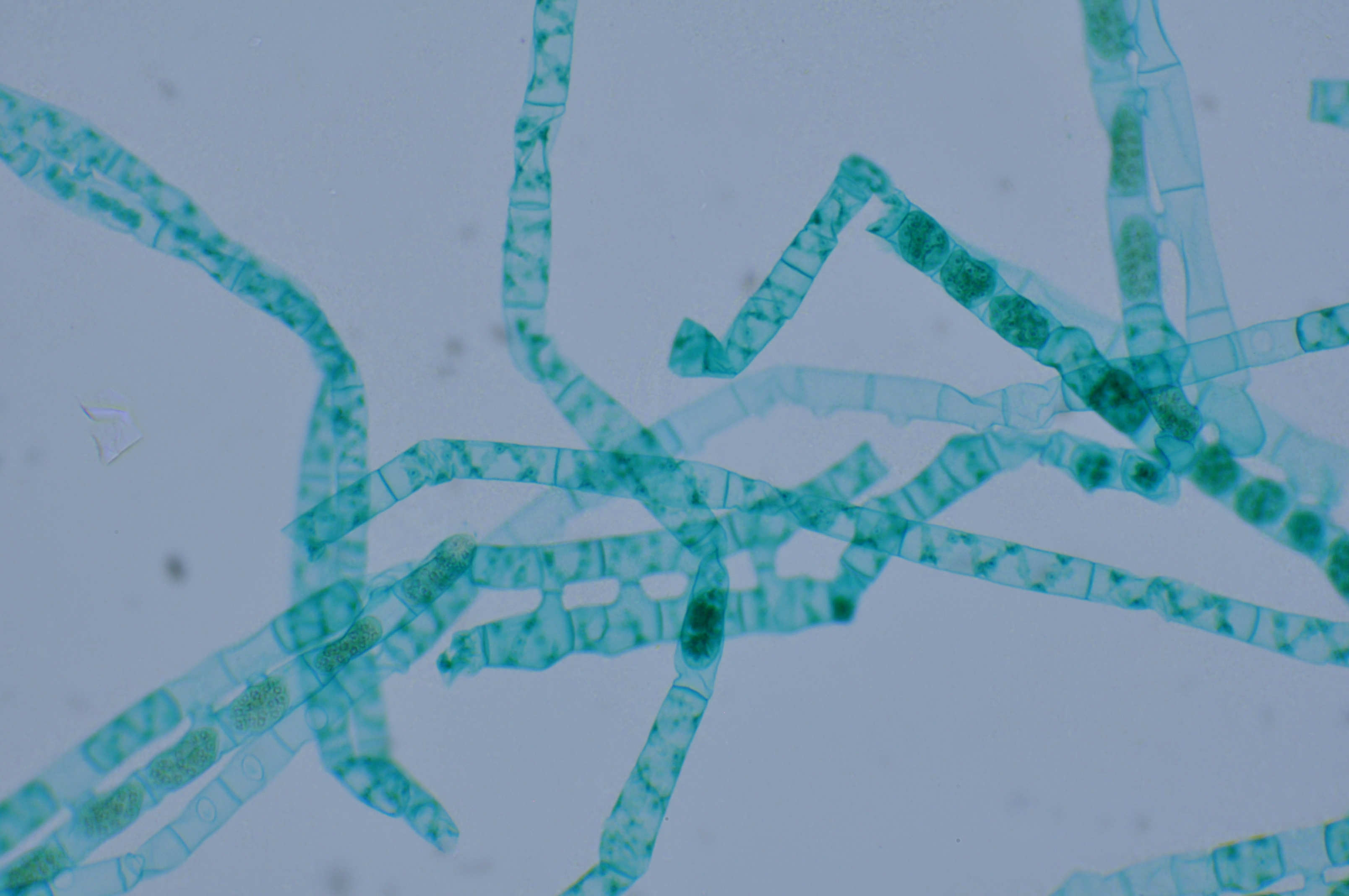 Spirogyra under light microskope, cells undergoing coniugation.